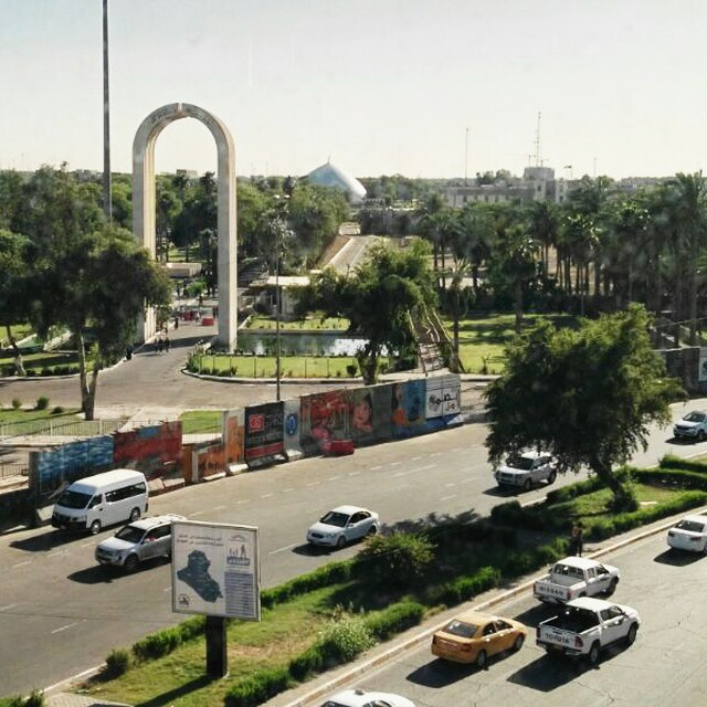 University of baghdad Jadriya,karada,baghdad ,the main section.Build in1960